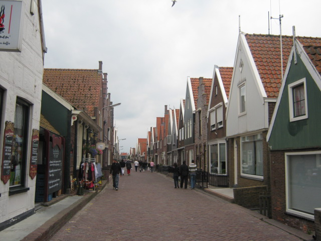 A street in Volendam